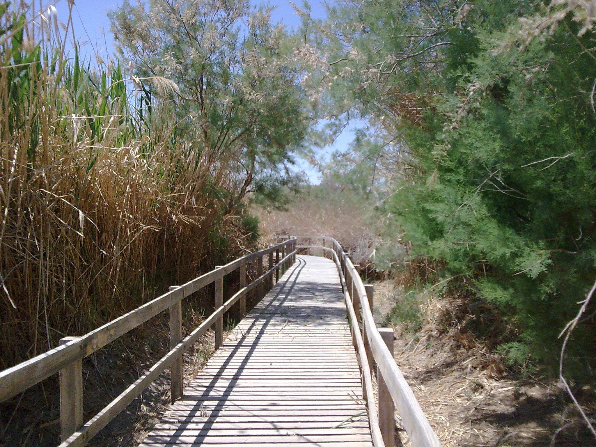 Picture self made. Taken at Azraq Wetlands Reserve. April 2009. Summary Picture self made. Taken at Azraq Wetlands Reserve. April 2009.